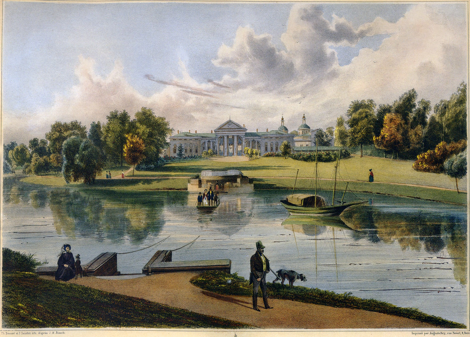 Kuzminki. South facade of palace. By Johann Nepomuk Rauch, 1830-es